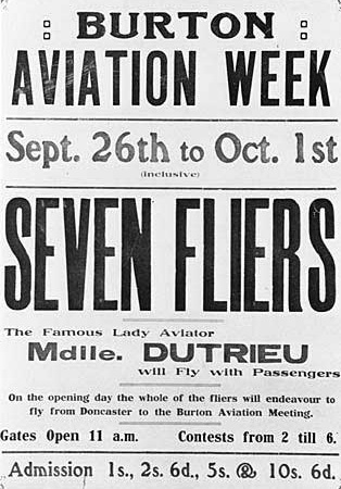 Poster of one of the numerous aviation meetings in which Hélène Dutrieu took part between 1910 and 1914.